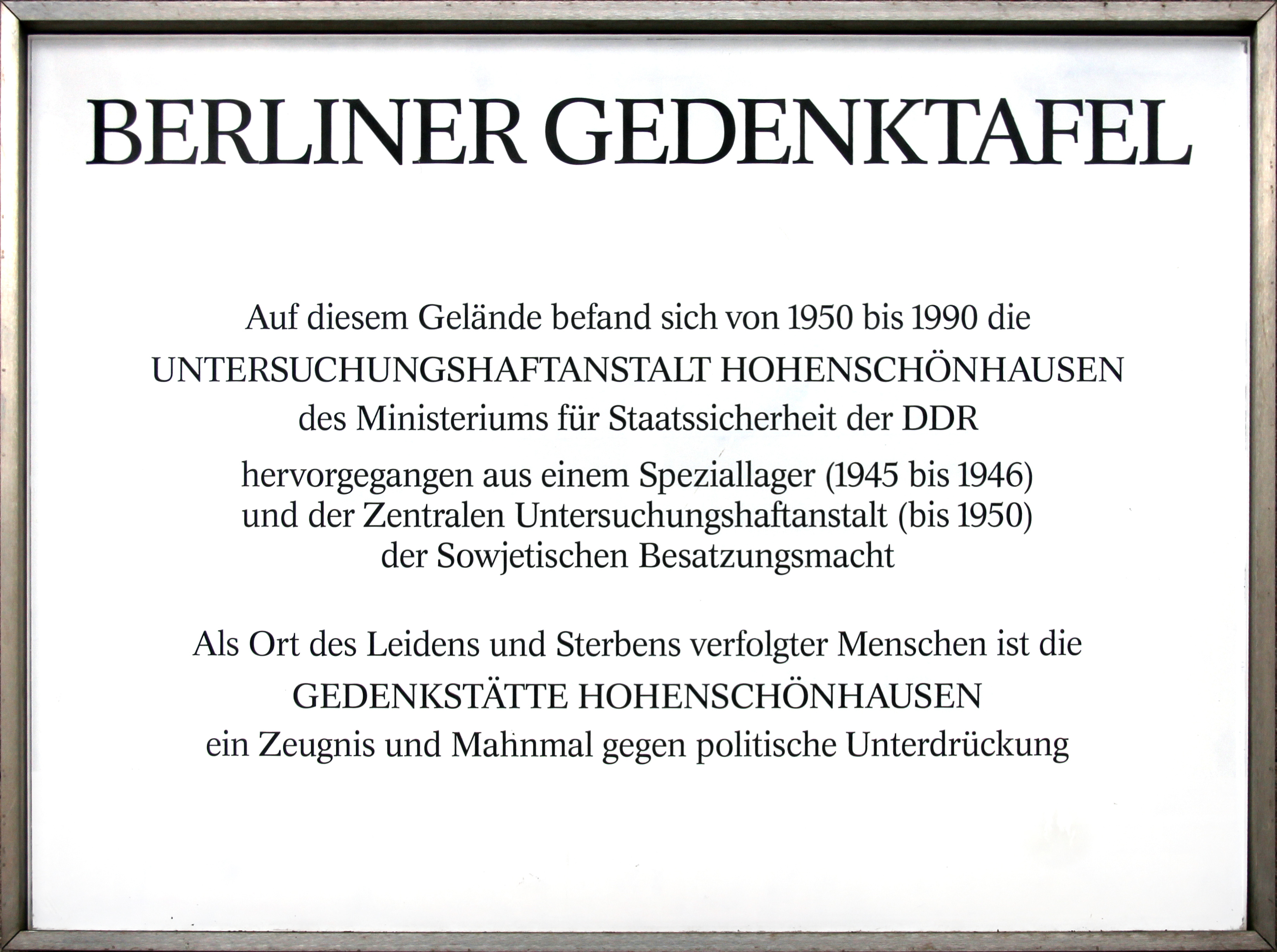 Berlin memorial plaque, Gedenkstätte Berlin-Hohenschönhausen, Genslerstraße 66, Berlin-Alt-Hohenschönhausen, Germany